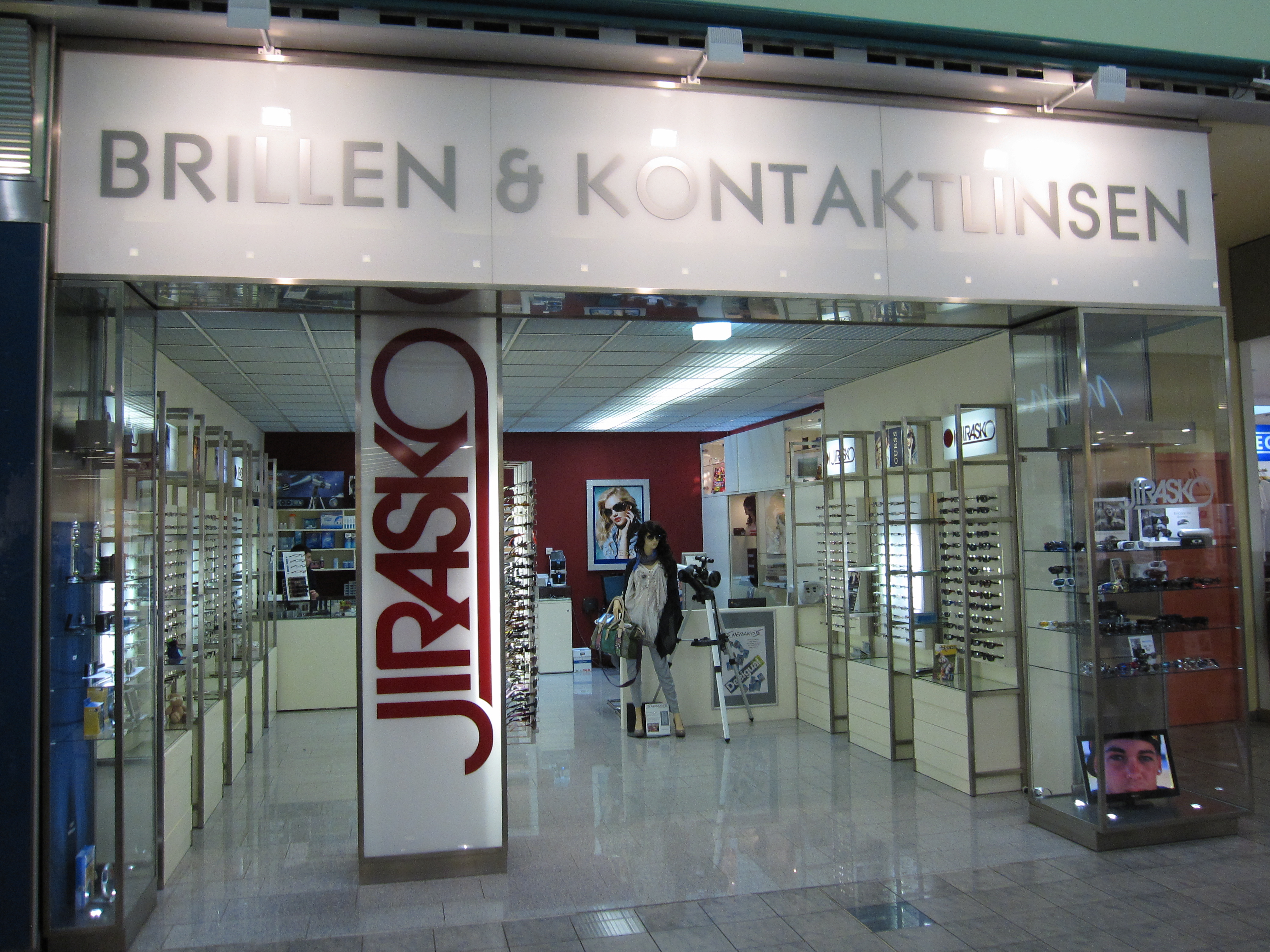 Shop of the optician Jirasko at EKZ-Fischapark in Wiener Neustadt, Lower Austria.